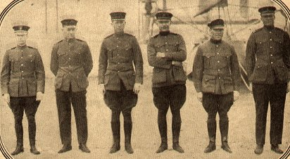 Crew of the NC-4, first aircraft to fly across the Atlantic. Left to right: Read, Stone, Hinton, Rodd, Howard, Breese. Howard was injured six days before the flight and was replaced by Eugene Rhodes.